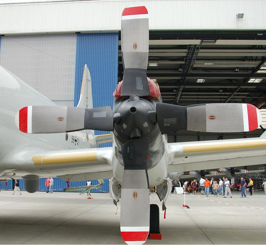 Four bladed hamilton standard variable pitch, constant speed, full feathering prop.